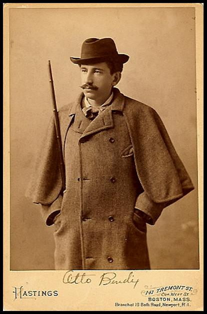 Otto Julius Emanuel Bendix (1845-1904), Danish pianist and oboist